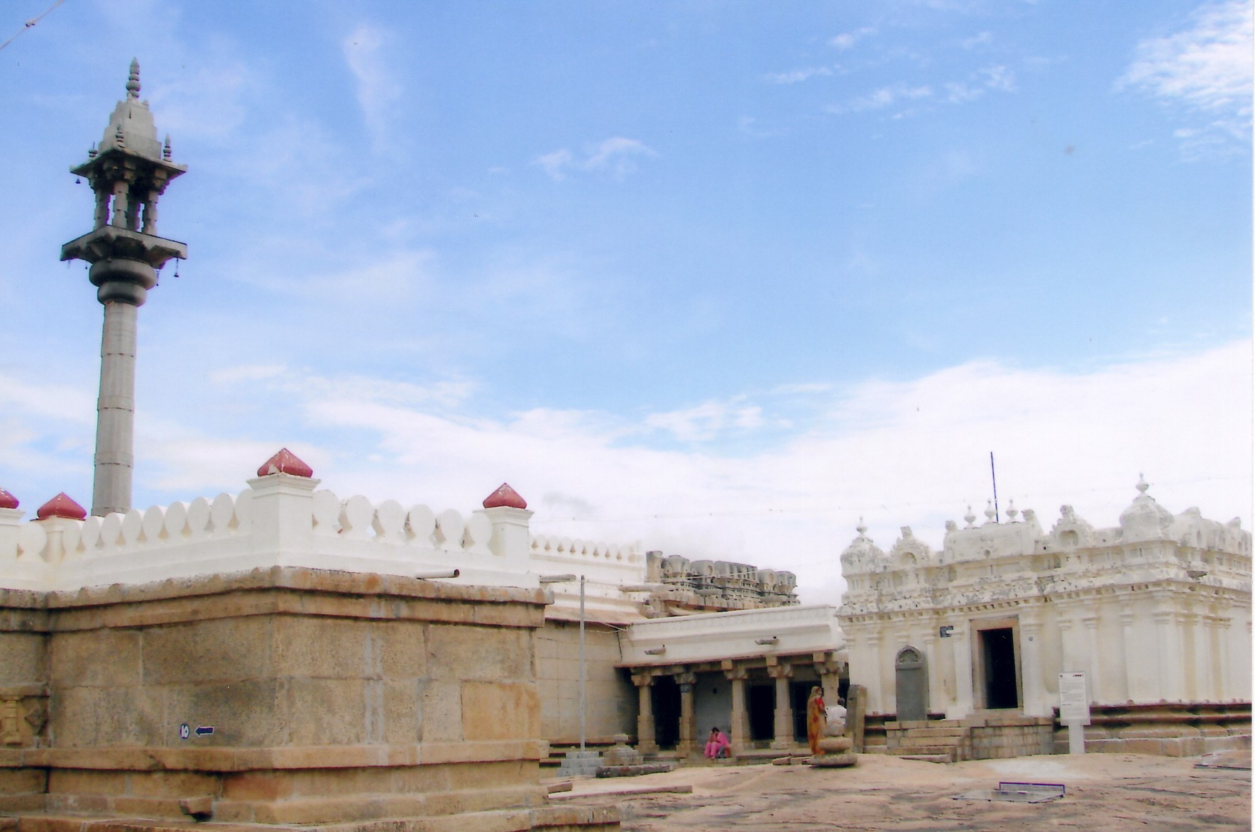 This photograph of the Sthambha (free standing pillar) and Chandragupta basadi (Jain temple) built by the Western Ganga Dynasty was taken by self (Dinesh Kannambadi) at Chandragiri hill, Shravanabelagola, Hassan district, Karnataka state, India